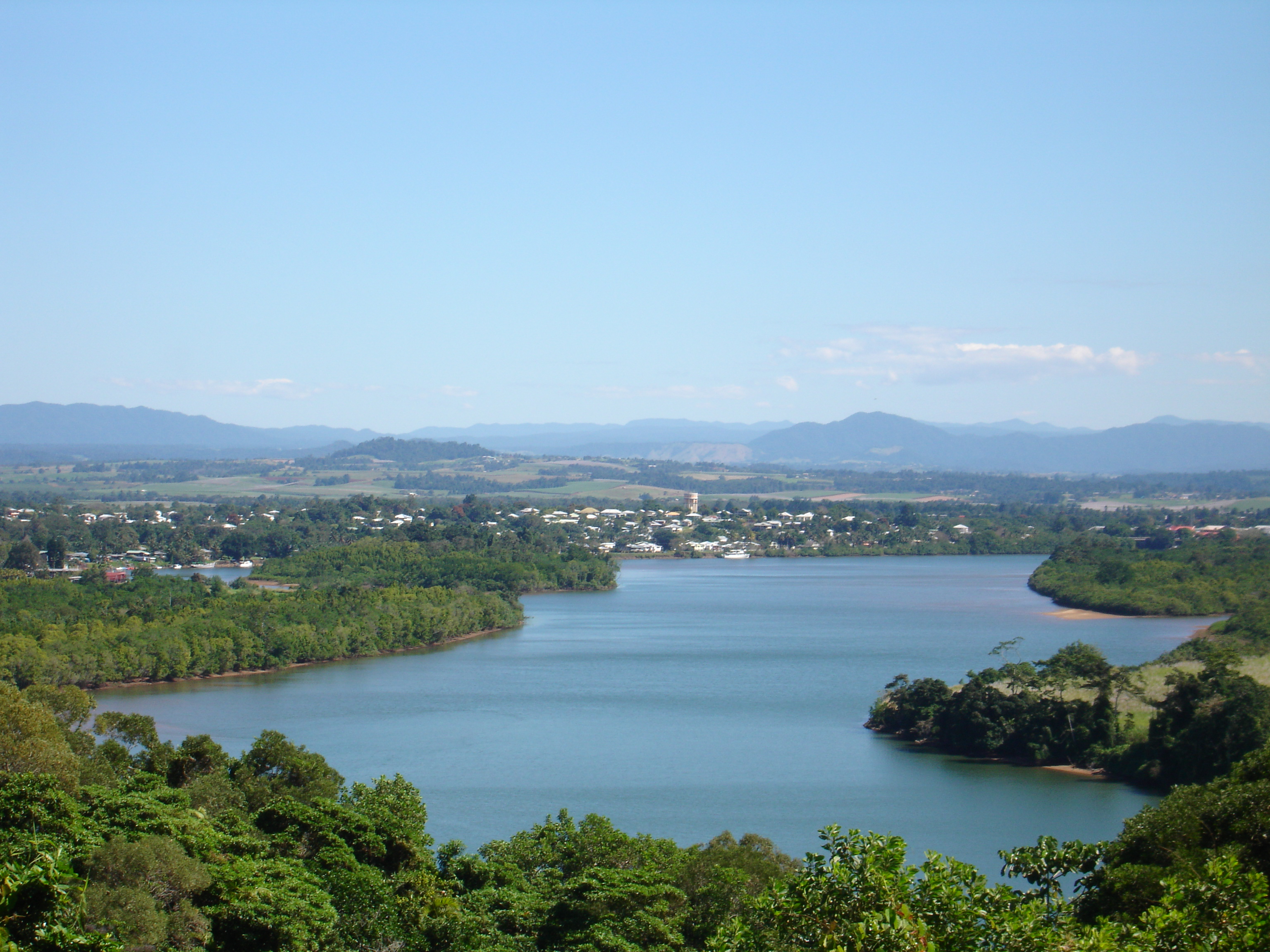 To demonstrate the outlay and geography of the Innisfail area. Photo by me. Taken from Croquette point